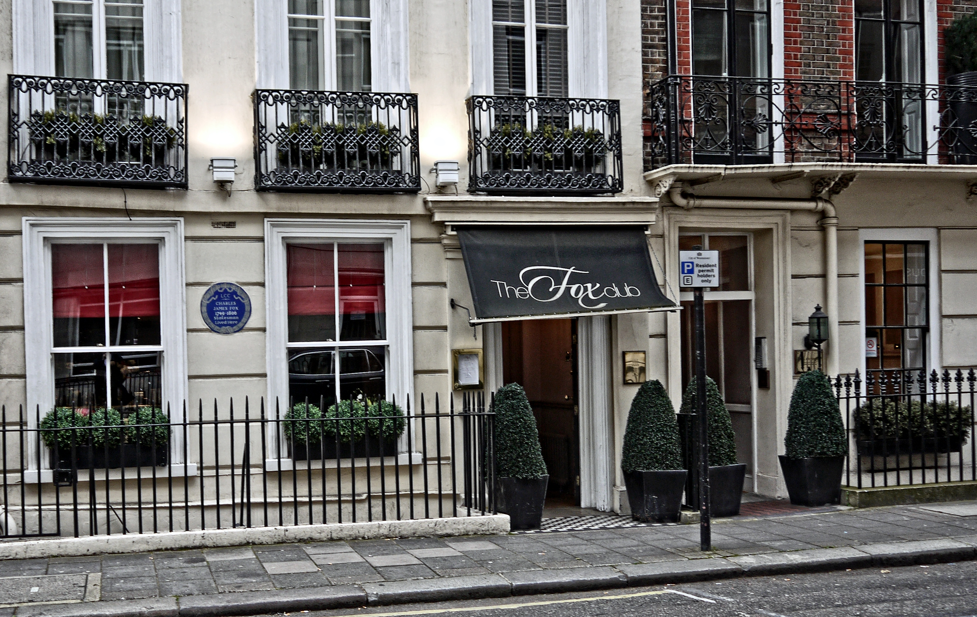 Clarges Street Mayfair. Once home to Charles James Fox, charismatic reformist politician during Georgian times.